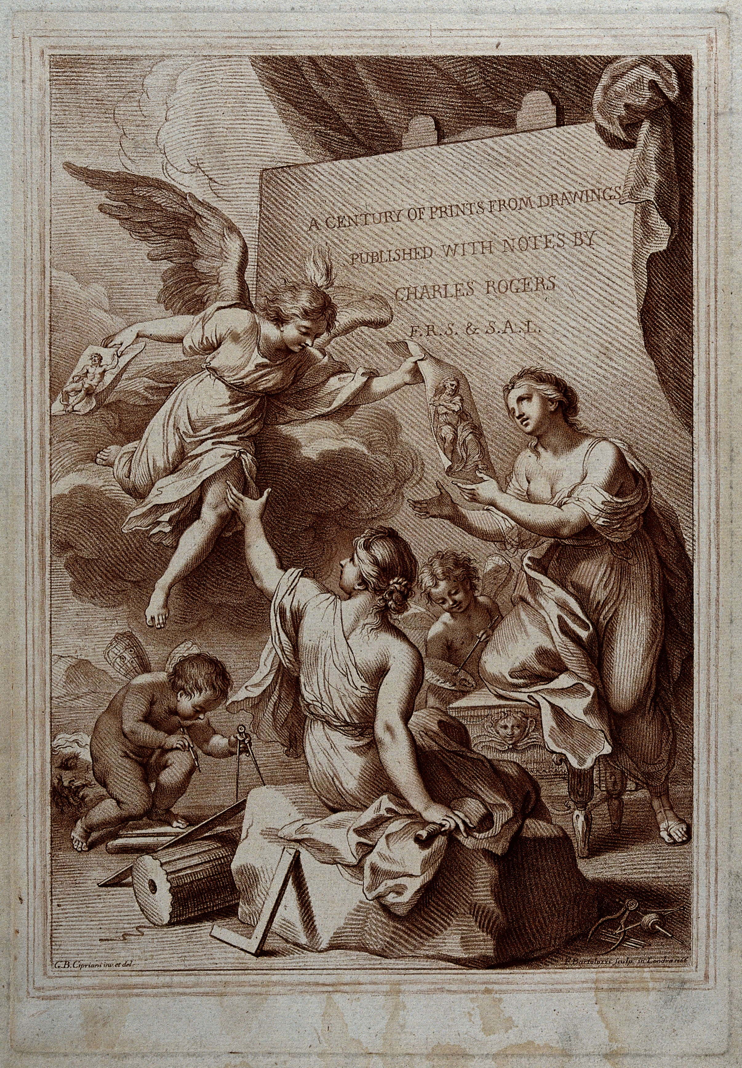 An allegory of the fine arts and architecture. Stipple engraving by F. Bartolozzi, 1766, after G.B. Cipriani. Iconographic Collections Keywords: Giovanni Battista Cipriani; Francesco Bartolozzi